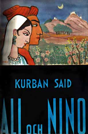 Ali och Nino (Ali and Nino). Swedish